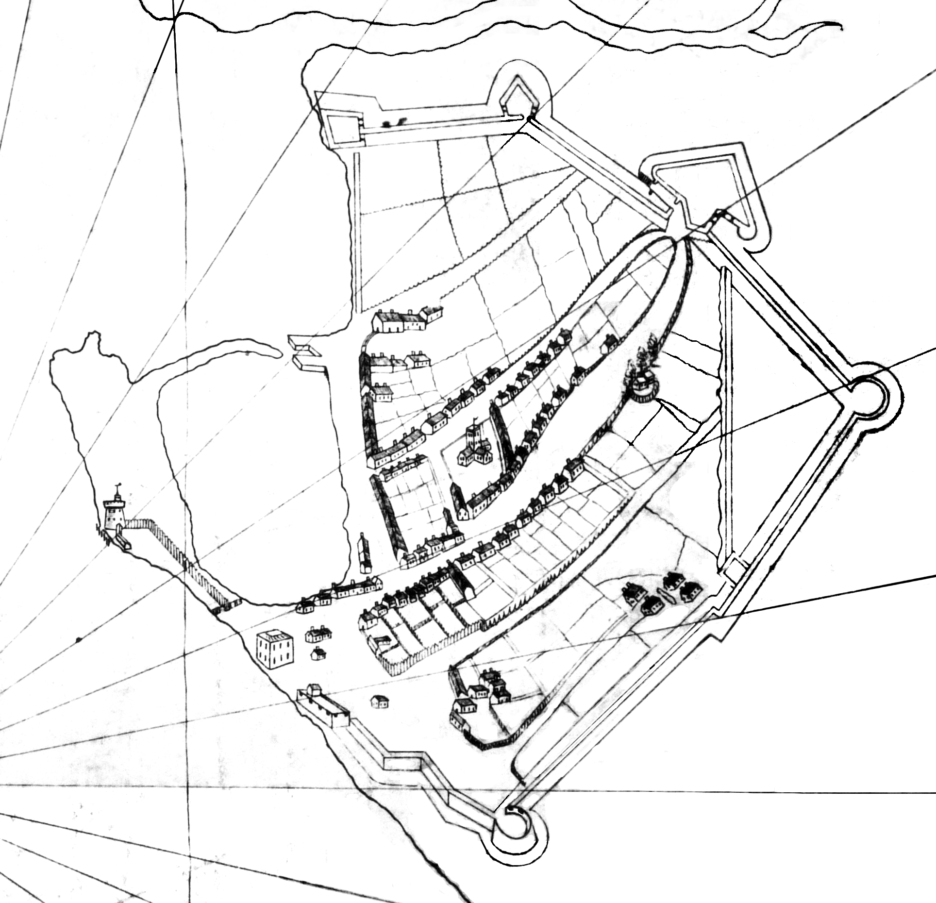 map of portsmouth labled as some time before 1540 but some features appear to date from 1545